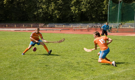 Ritinis